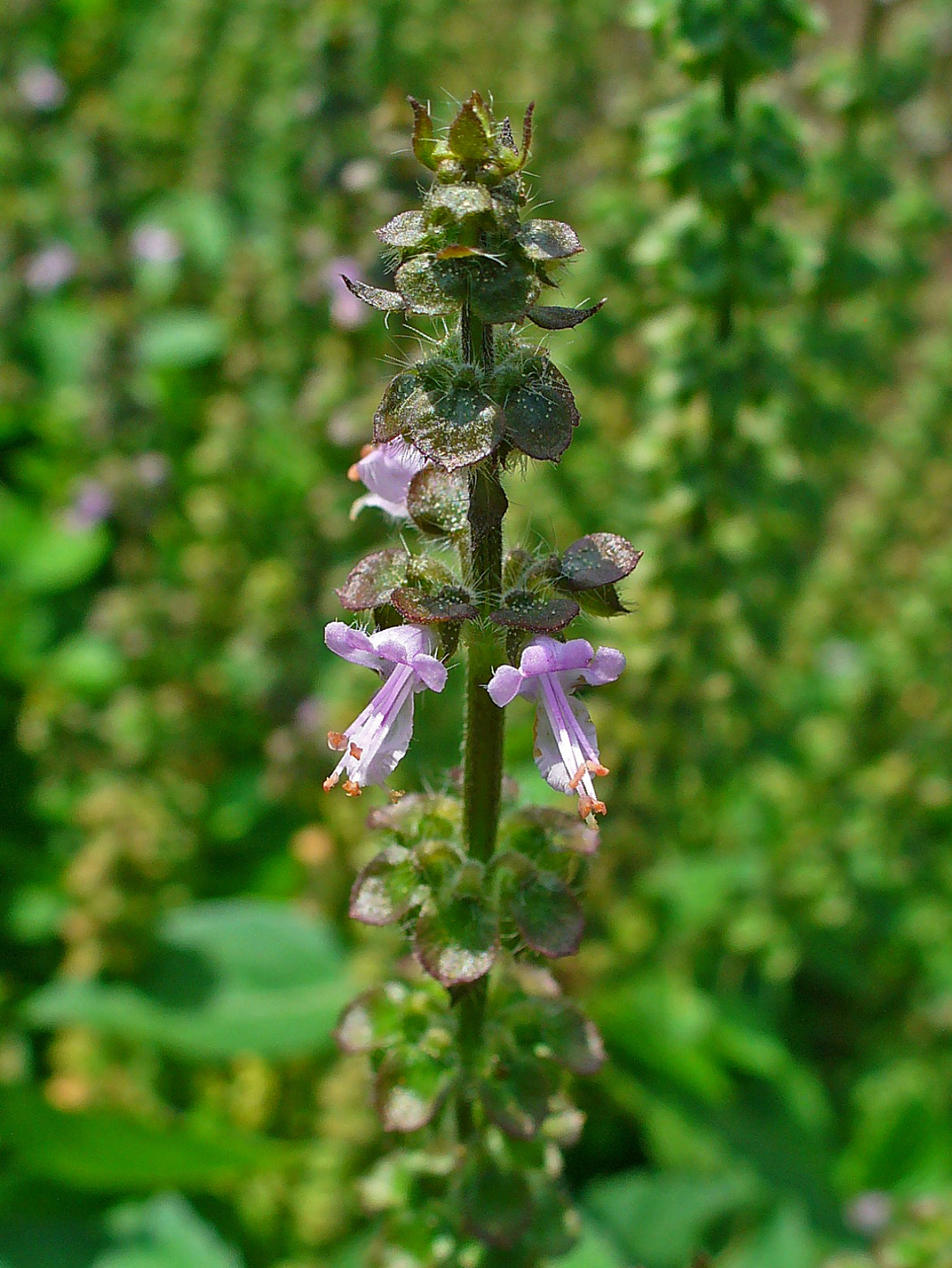 American Basil; Habitus; Stutensee, Germany.